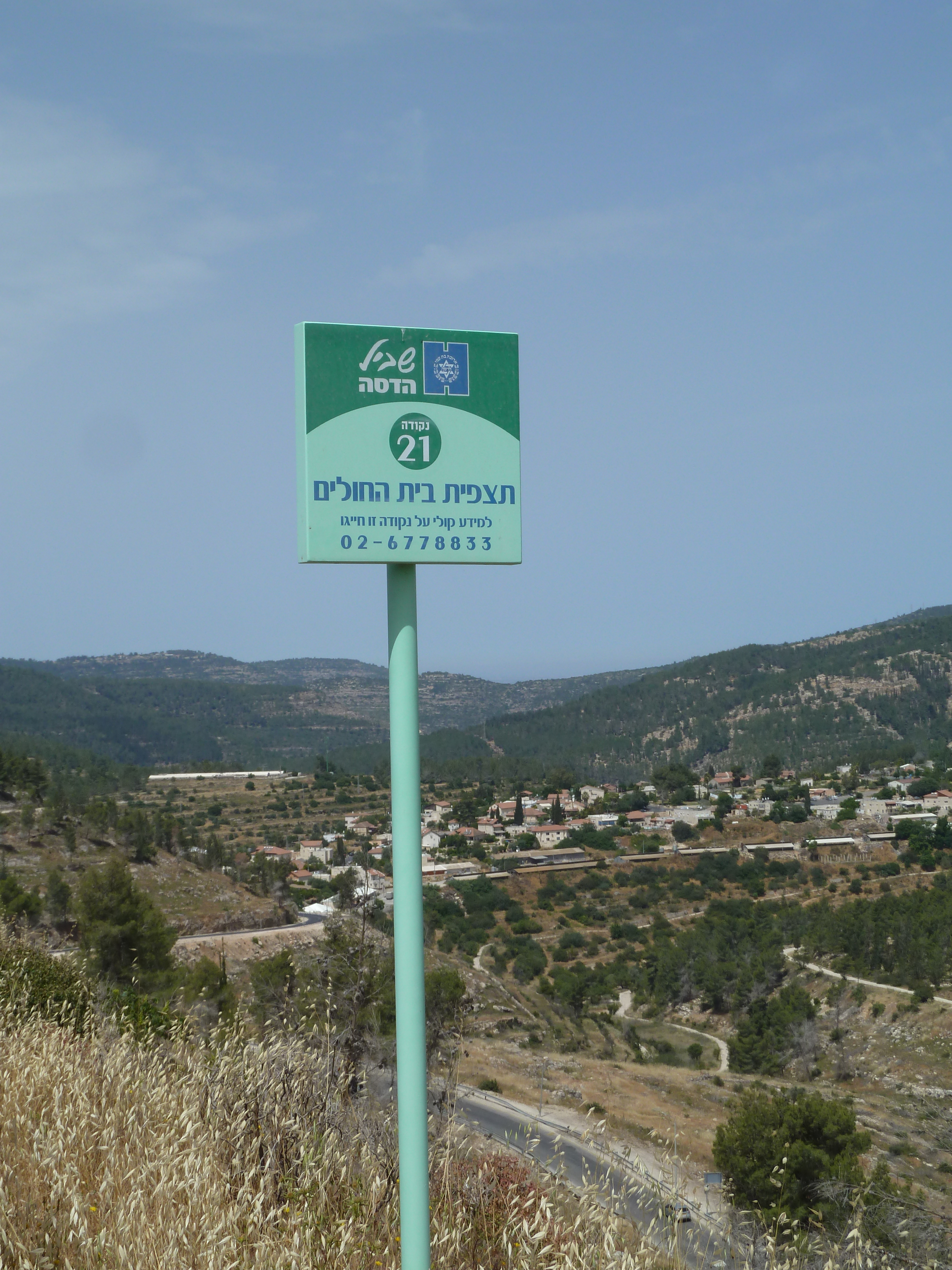 Hadassah Trail. Ein Kerem,, Jerusalem, Israel